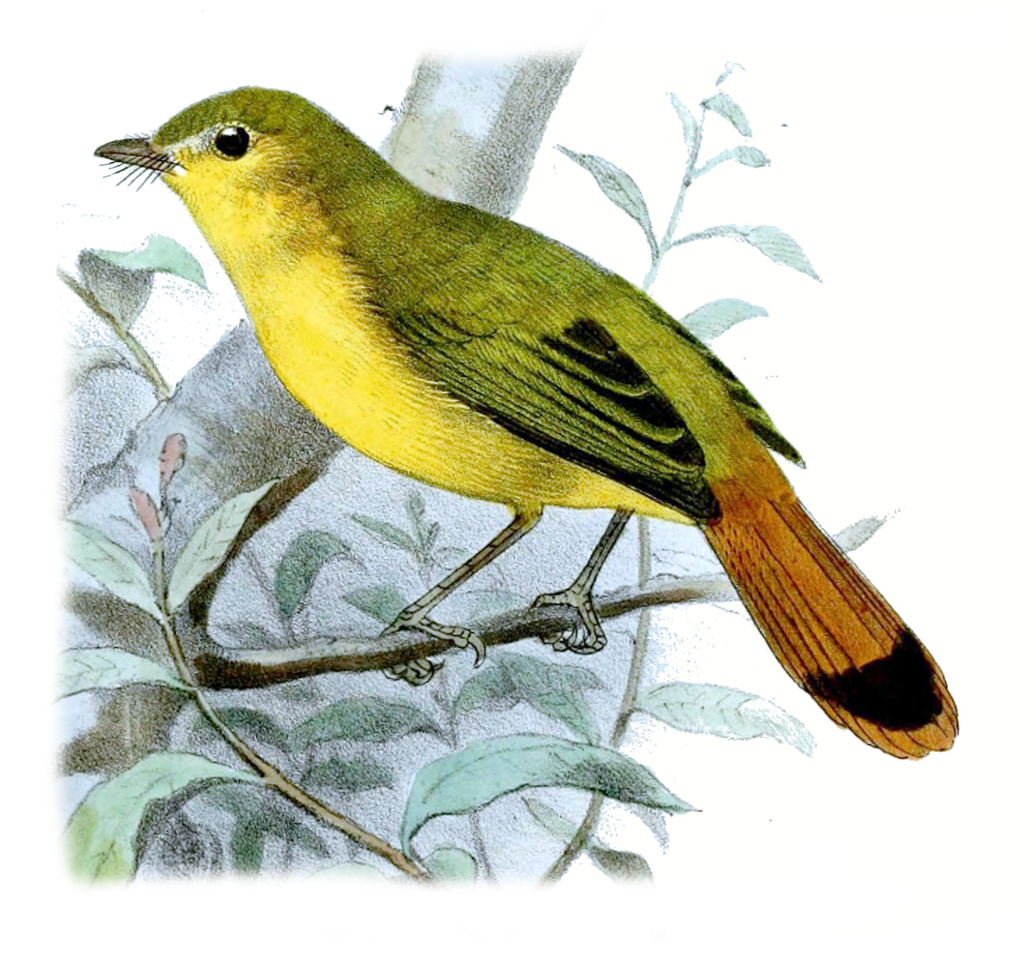 Livingstone's Flycatcher